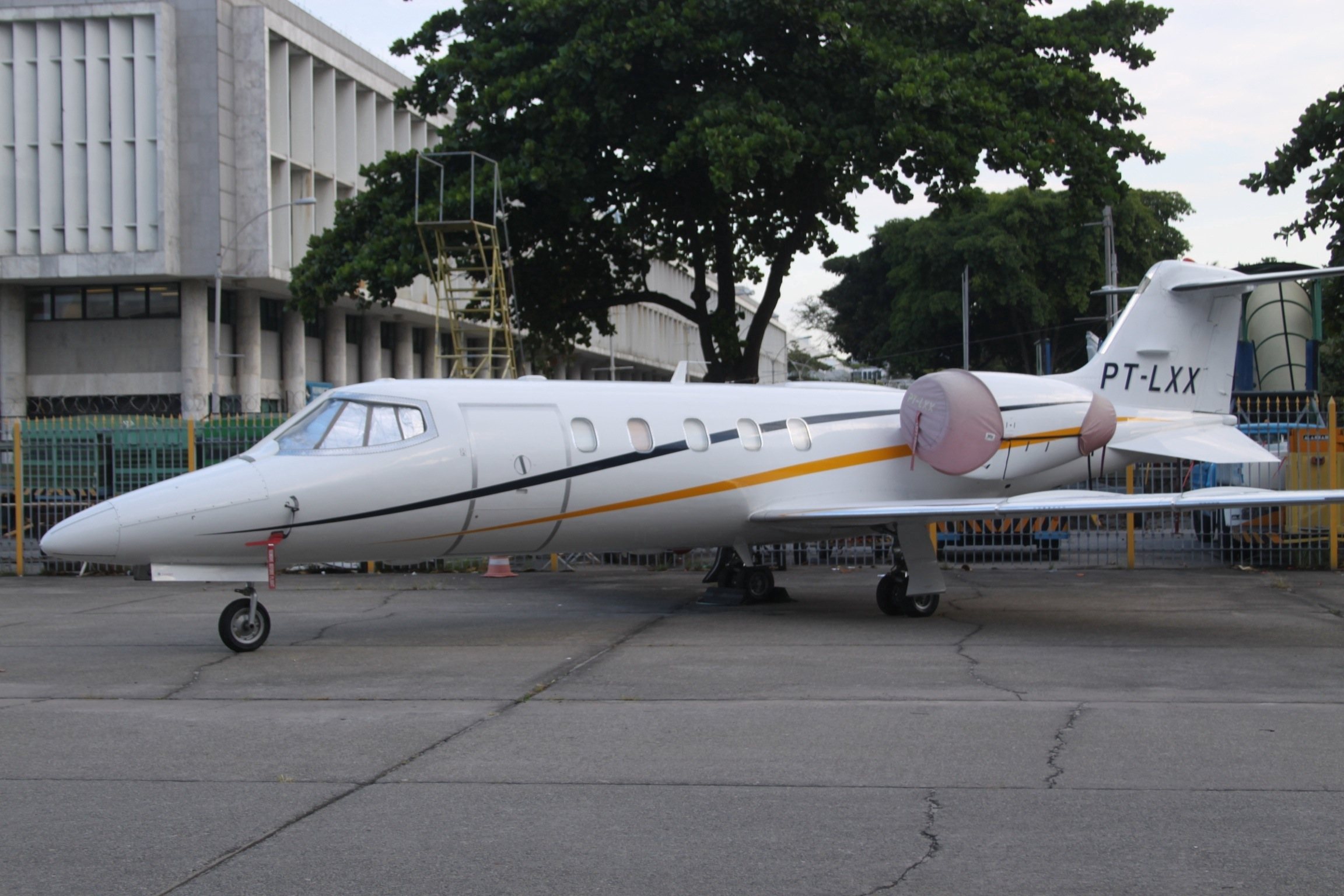 At Santos Dumont